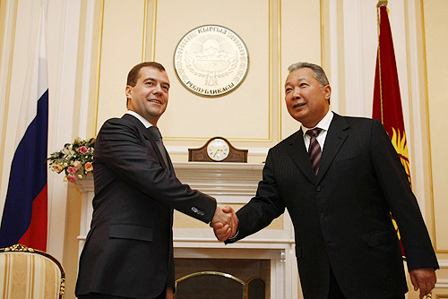 BISHKEK. With President of Kyrgyzstan Kurmanbek Bakiev.